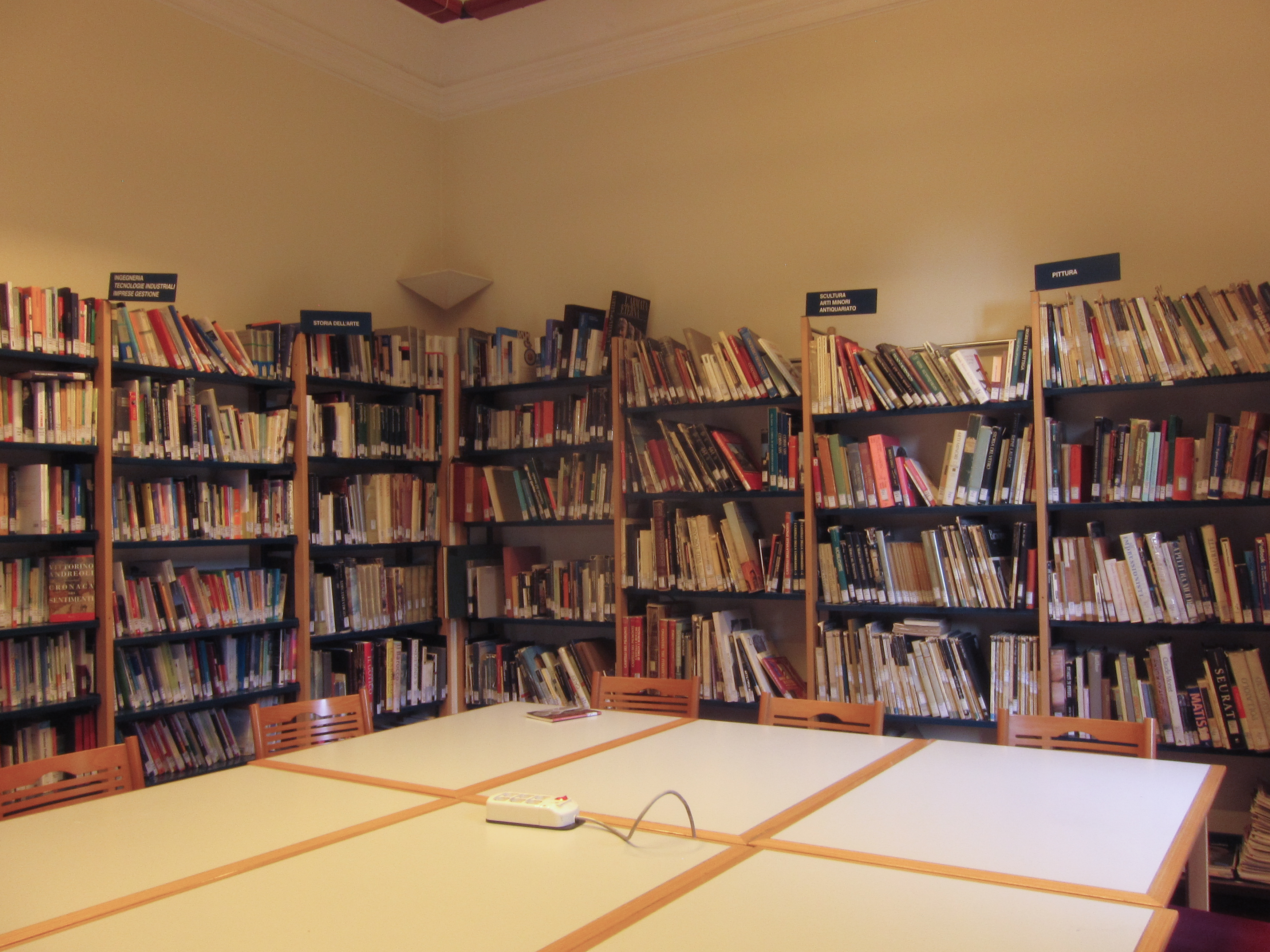 Reading and studying room in the public Library "Augusto Marinoni" of Legnano, Lombardy, Italy. Picture taken on the 19th of September 2019. 2019-09-19 This is a photo of a monument which is part of cultural heritage of Italy.